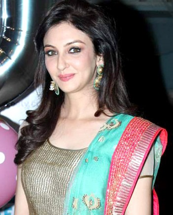 Actress Saumya Tandon